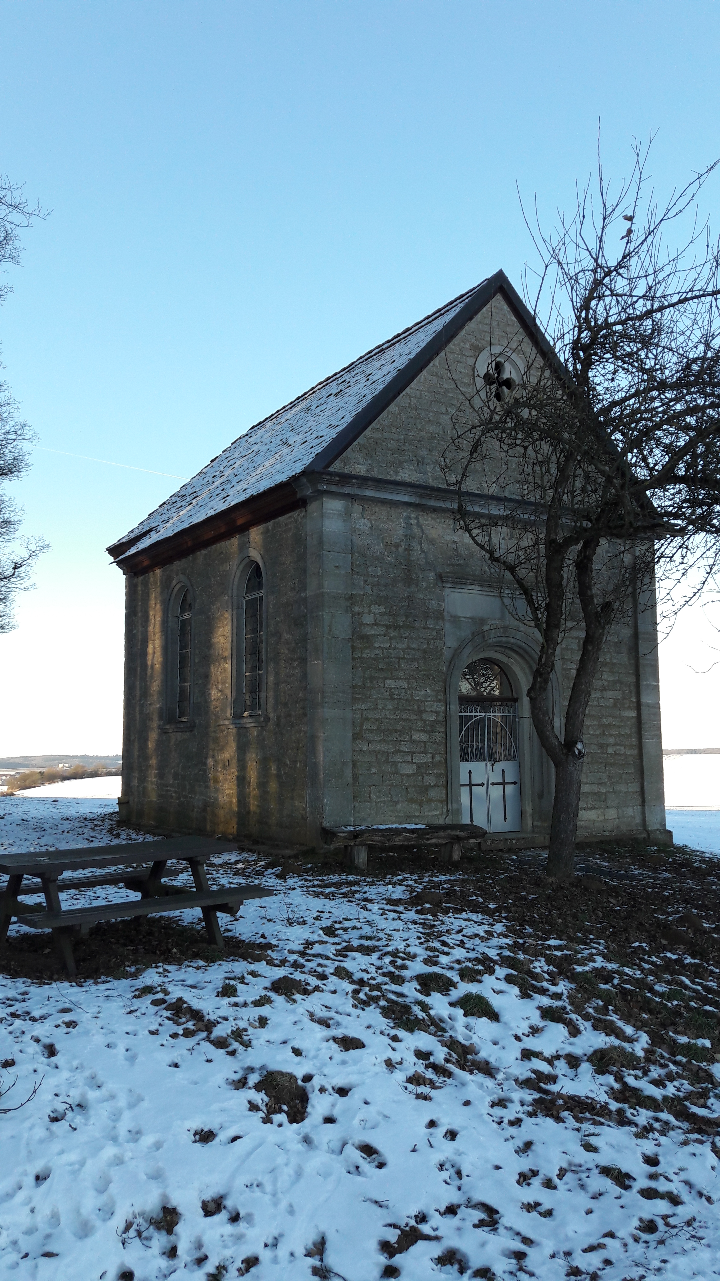 (Hof Lilach, 2017)